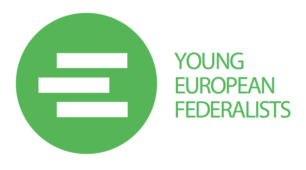 large logo of JEF